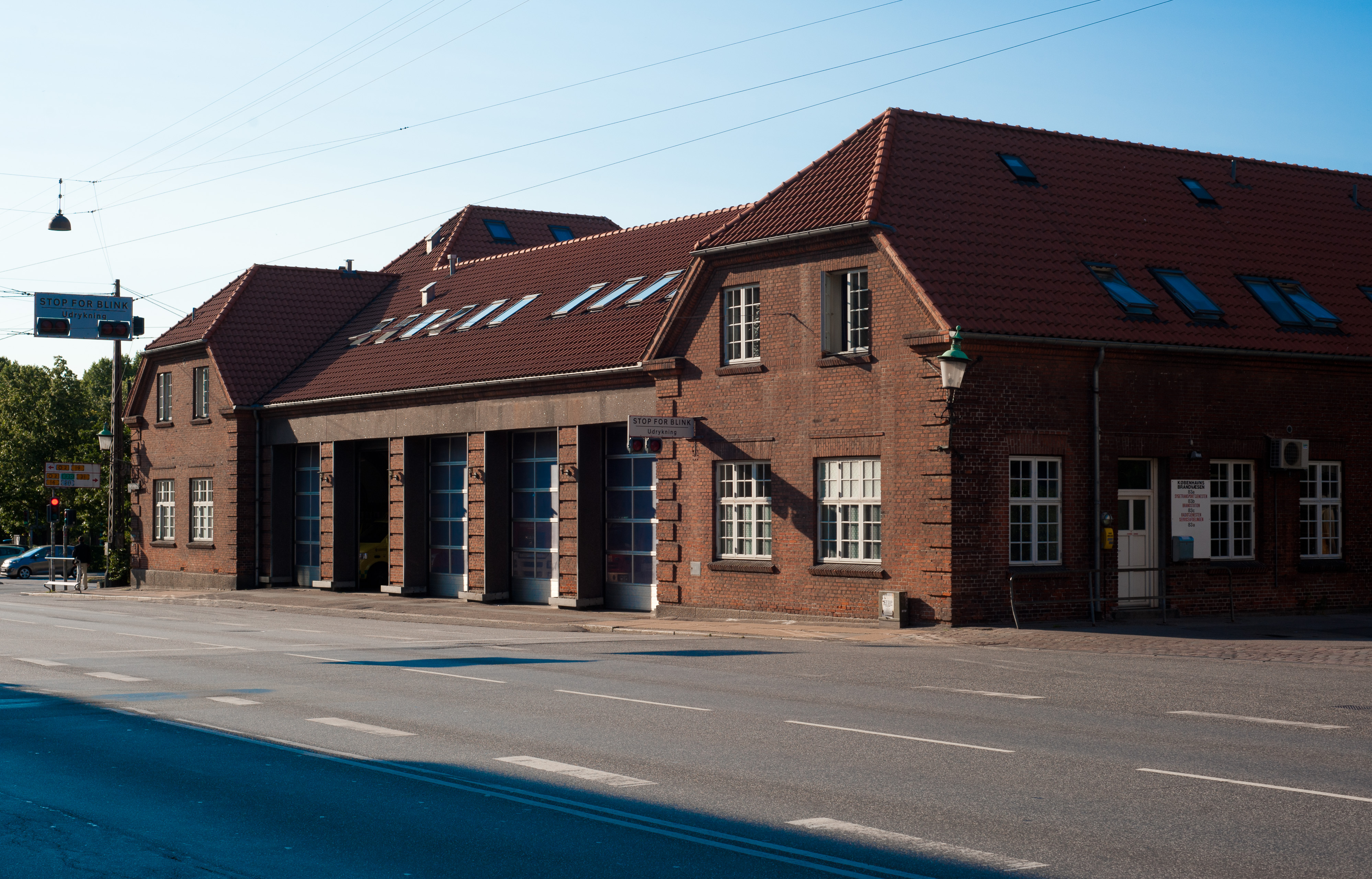 Tomsgårdens Brandstation (lit. Tomsgården's Fire Station) in Copenhagen.